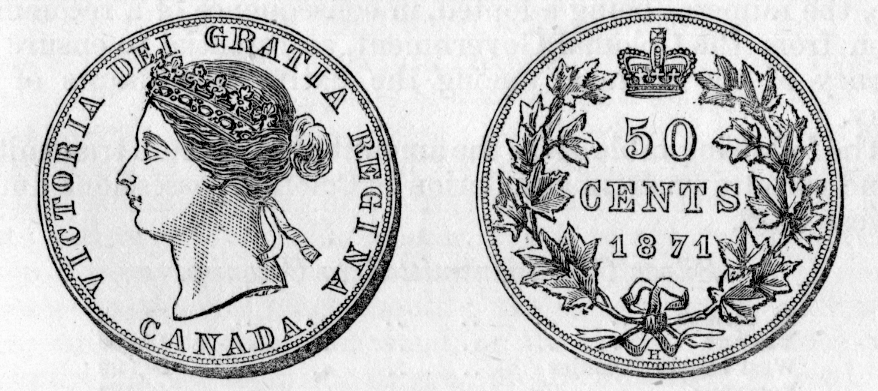 A Canadian fifty-cent piece of 1871. "Weight .375, fineness 925. Value nearly 2s." Both sides shown